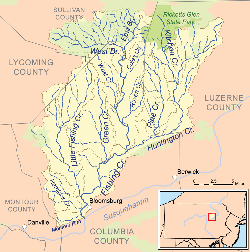 This is a map of the drainage basin of Fishing Creek. The drainage basin is in yellow. State protected lands are in green (primarily Pennsylvania State Game Lands).